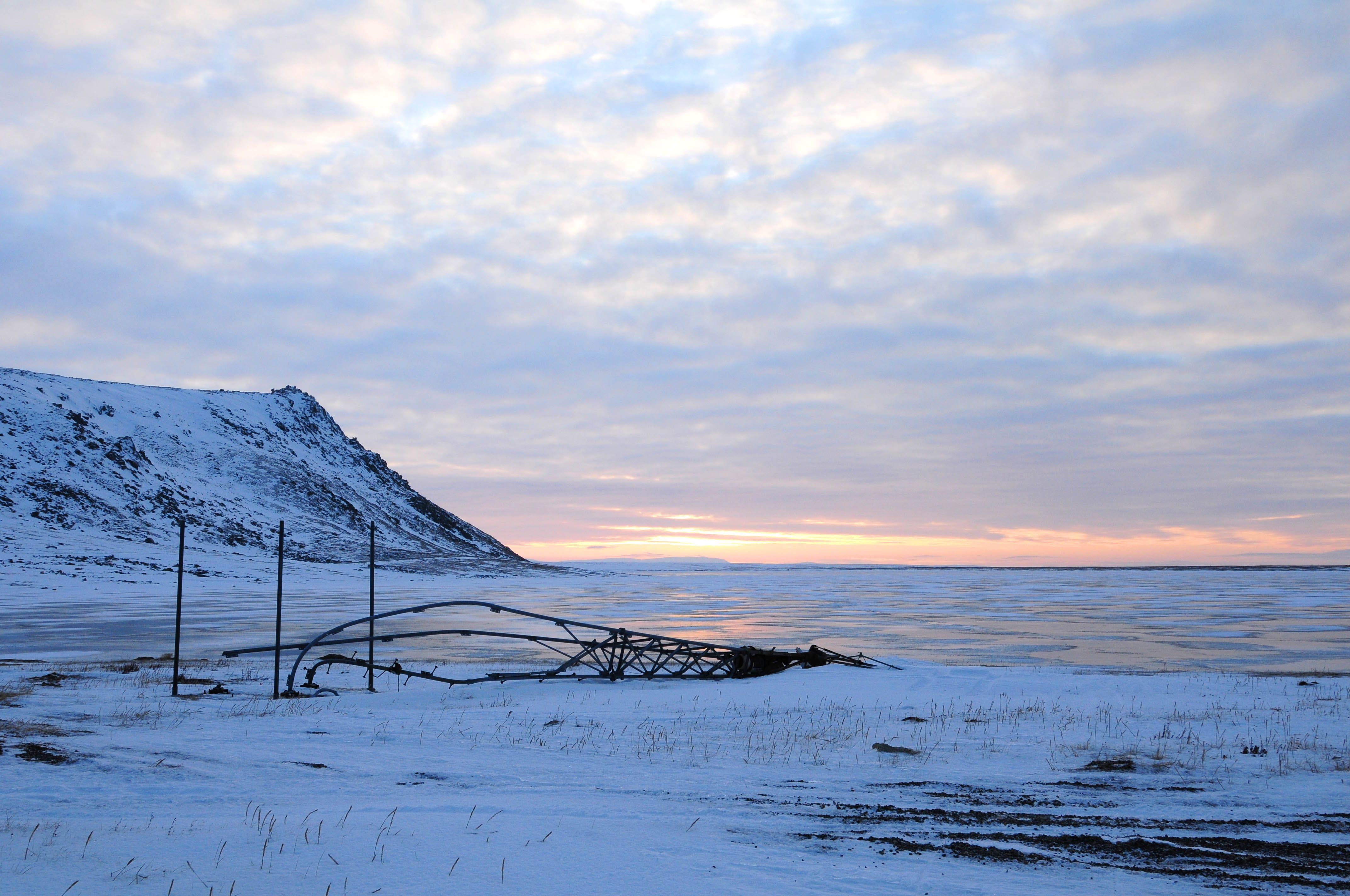 091216-F-1735C-086.JPG